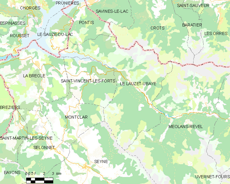 Map commune FR insee code 04102.png Légende